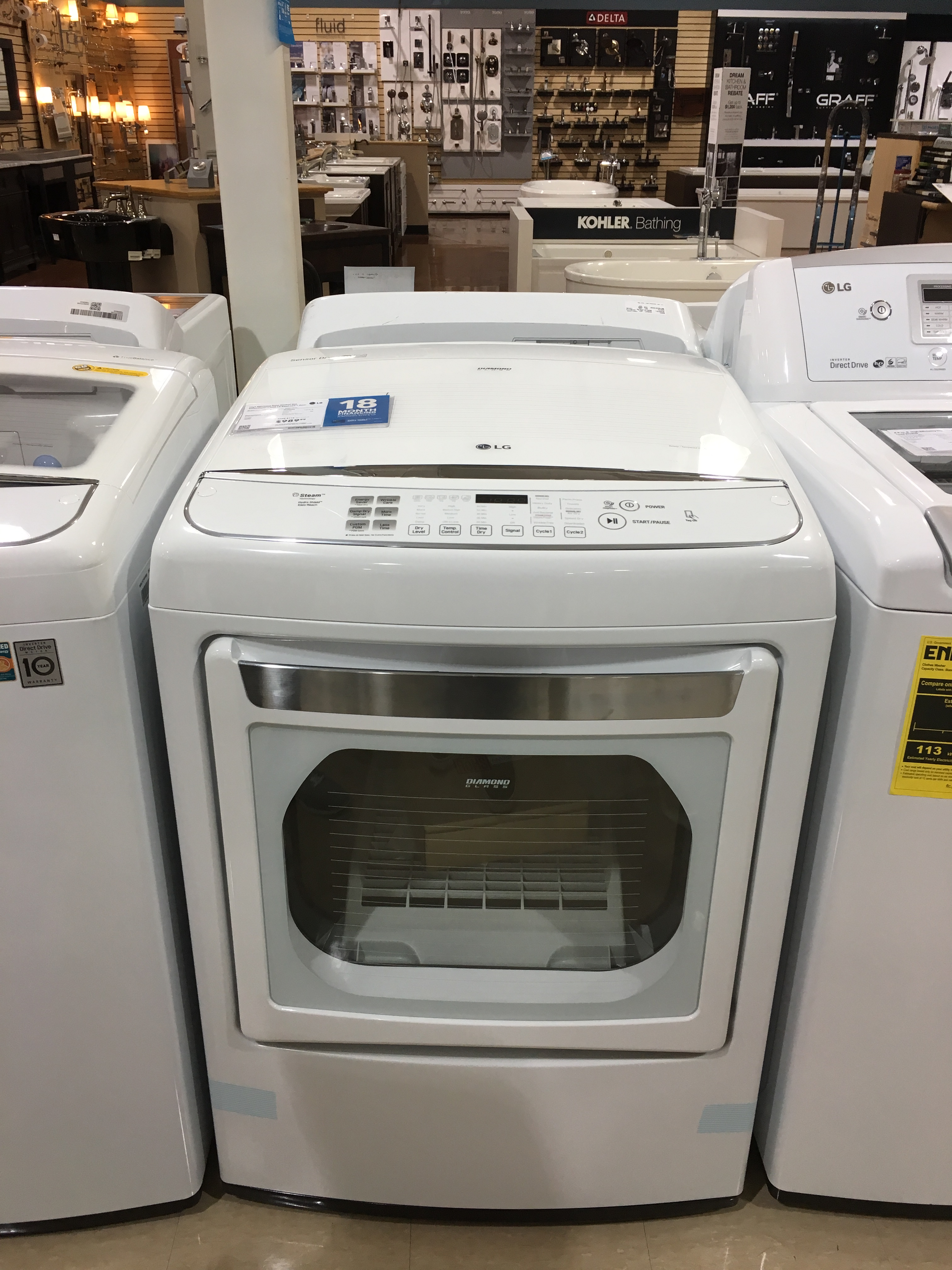 LG Clothes Dryer